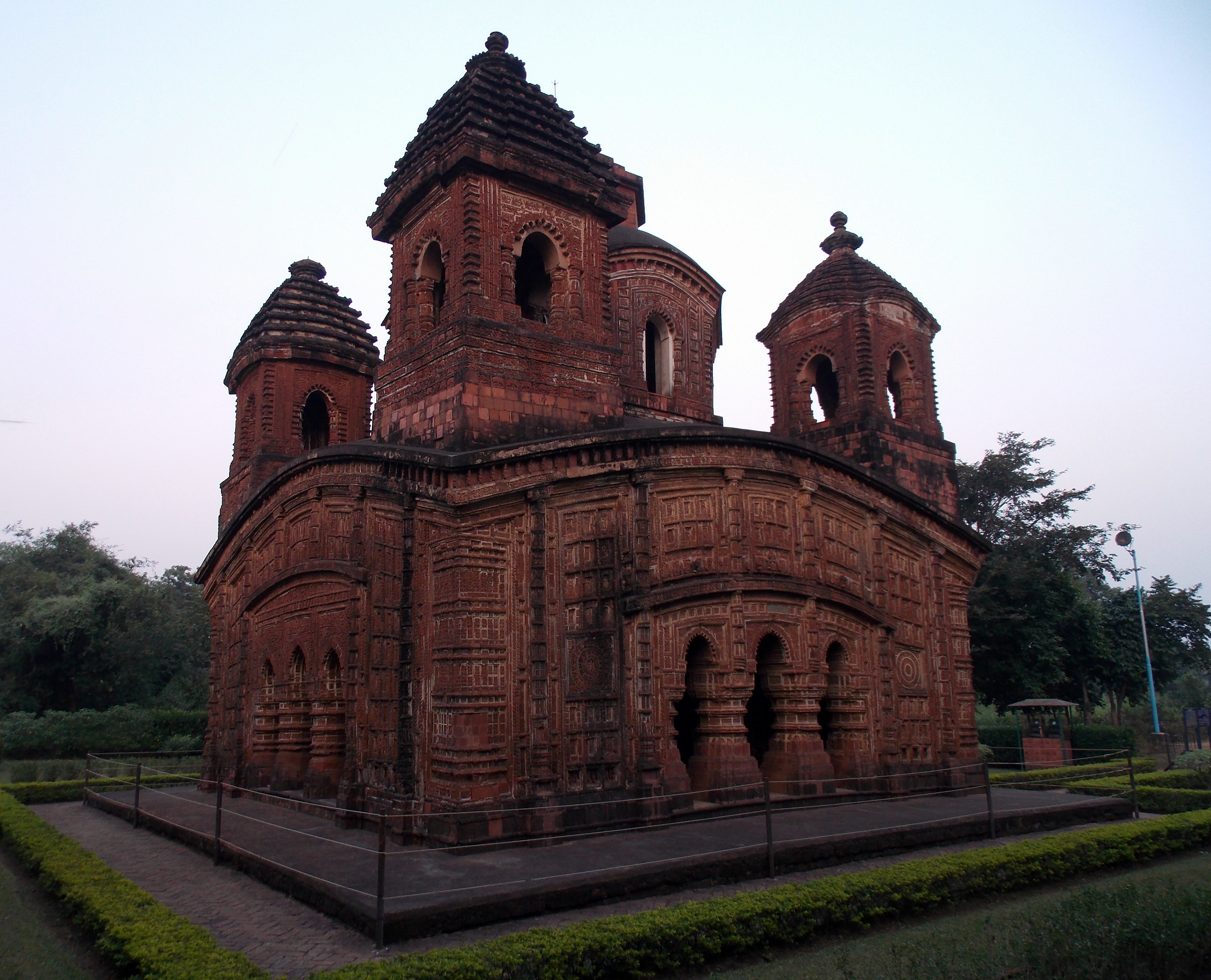 Abhay Ray's Photography